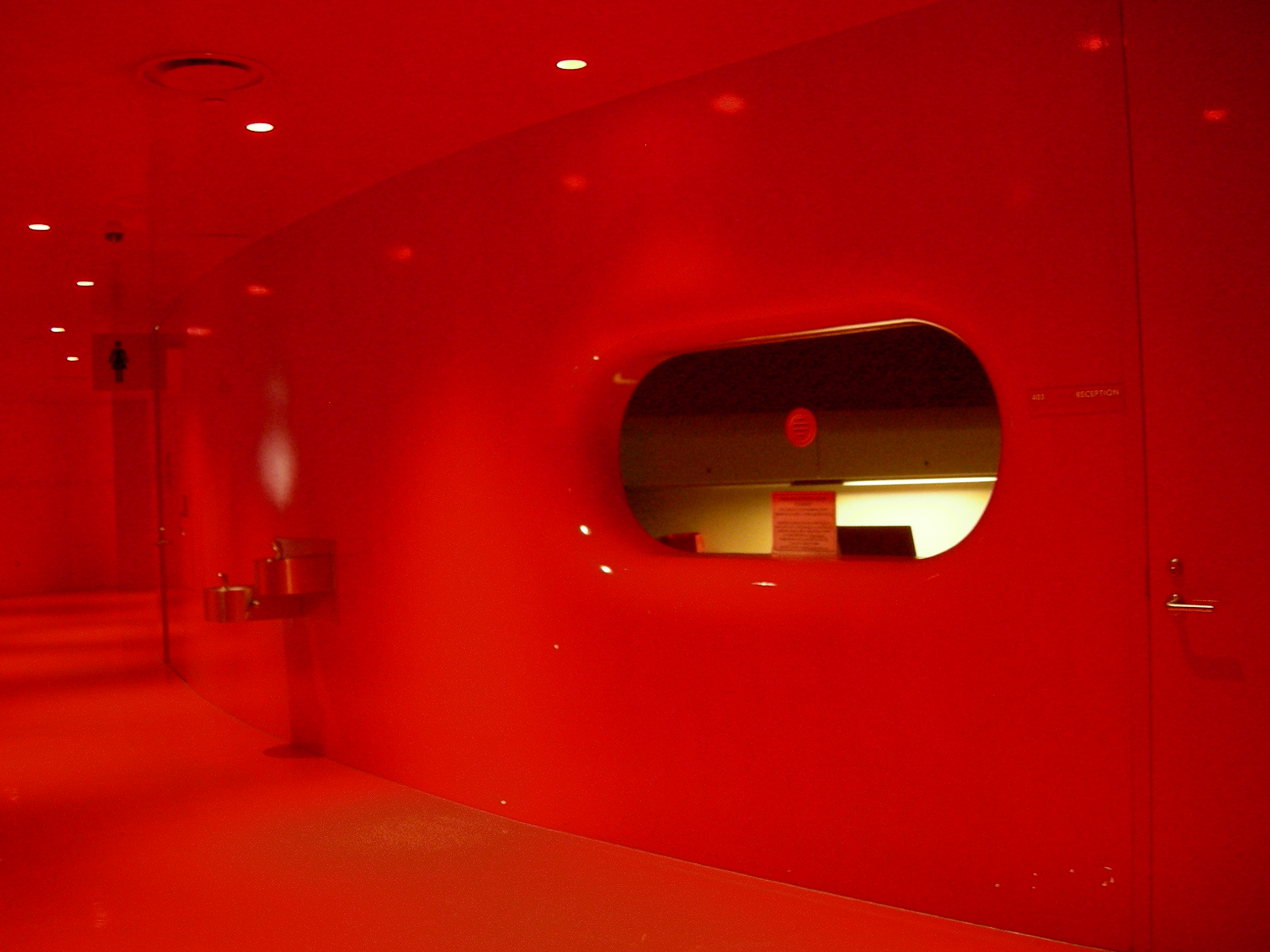 Fourth floor, Central Public Library, Seattle, Washington. This floor contains conference rooms, classrooms, and at least one office. The bright red hallways contrast to the blues and metallic tones that dominate most of the rest of the library.